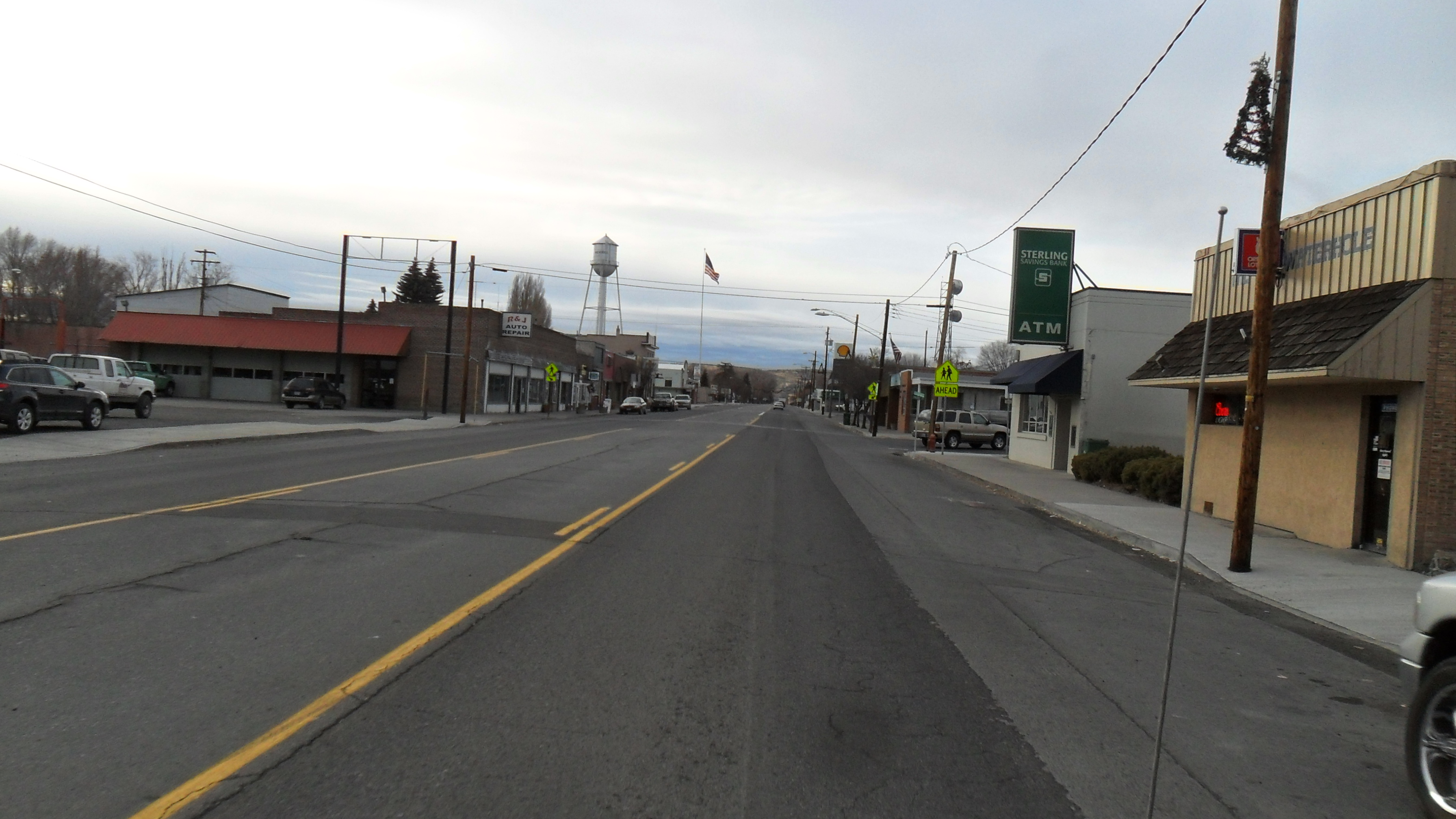 E Front St (jct with Oregon Route 39) just past Main St of Merrill, Oregon.